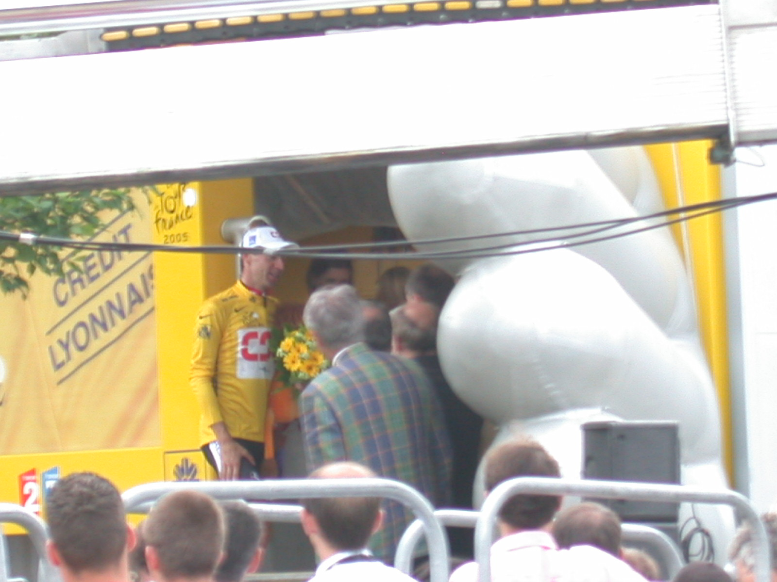 Description: Jens Voigt, camiseta amarela em Mulhouse, 10 de julho de 2005 Jens Voigt, maillot jaune à Mulhouse, 10 juillet 2005 Jens Voigt with the yellow shirt in Mulhouse July, 10th 2005 Credits: User:Mschlindwein